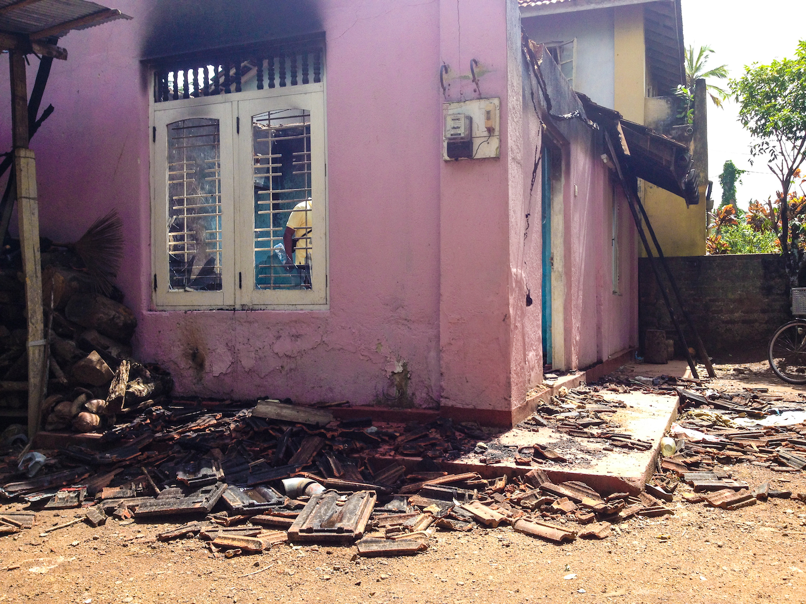 IMG_9030 Photos around the aftermath of the violence against the Muslim community in Aluthgama, Sri Lanka in June 2014.